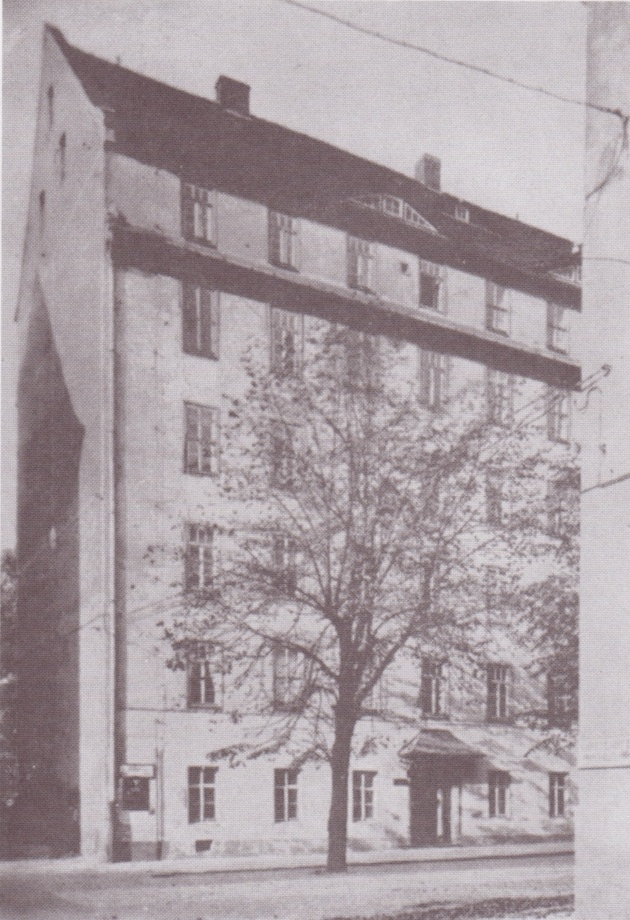 The Sprachenkonvikt in the Franckesche Stiftungen Halle.